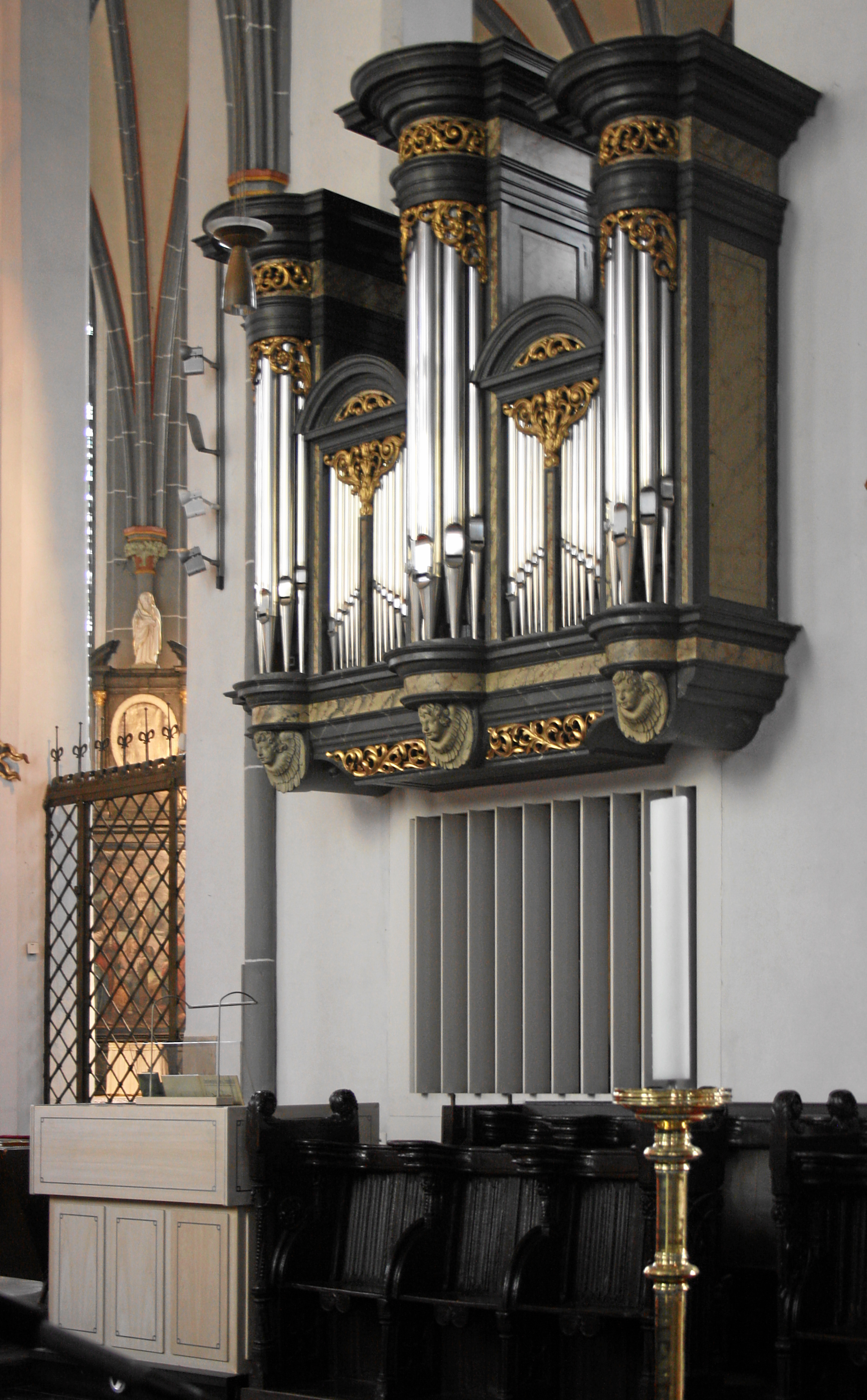 Düsseldorf, Germany. Catholic church St. Lambertus, pipe organ in the choir with baroque front.